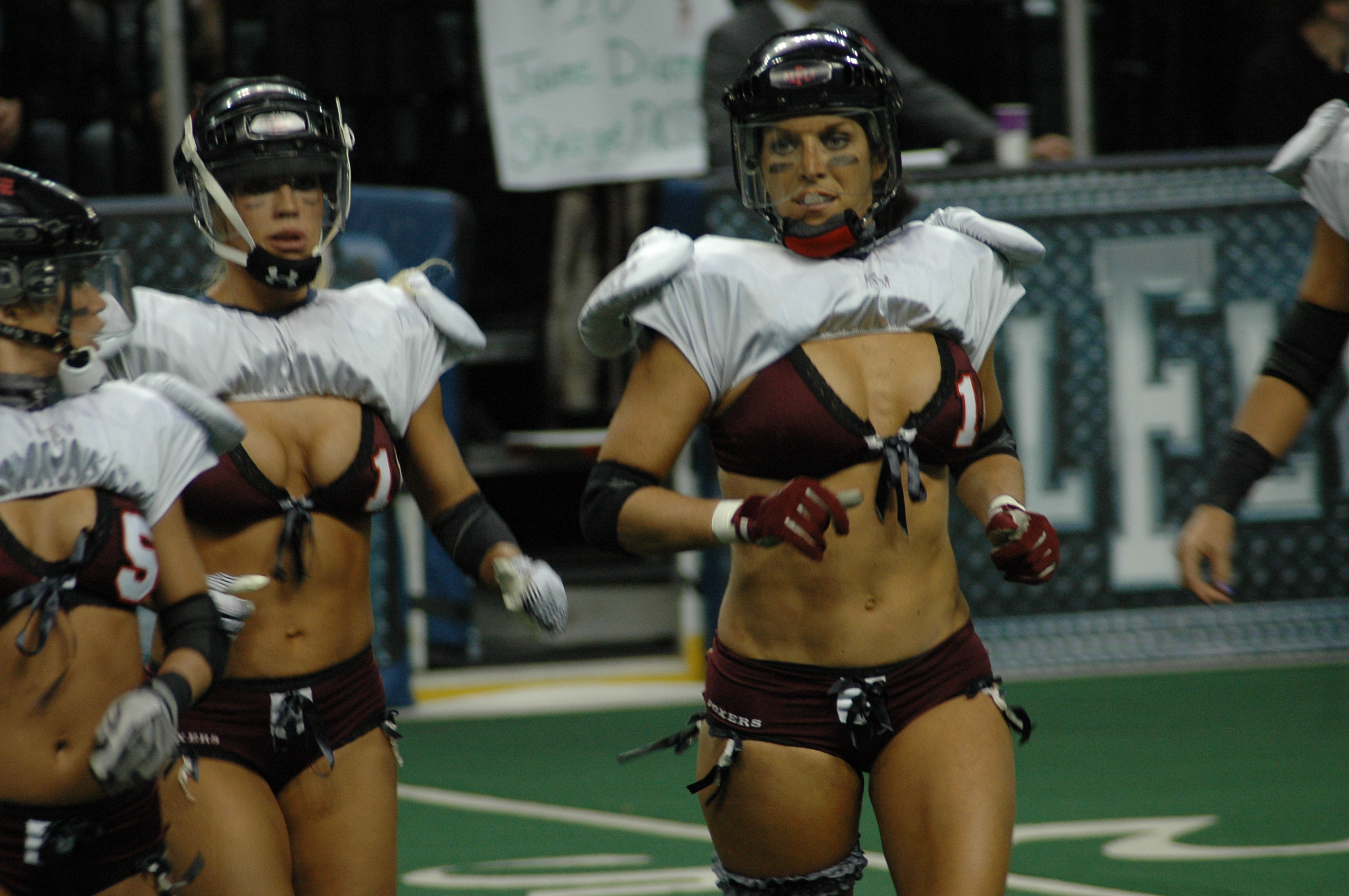 5 (Eliese Zukelman), #11 (Shannon Bennett) and #14 (Jennifer Langston) run onto the field.